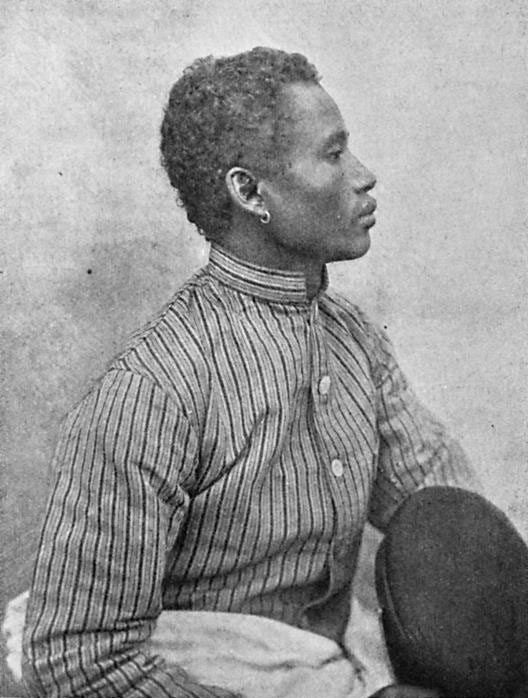 Betsimsaraka-1914